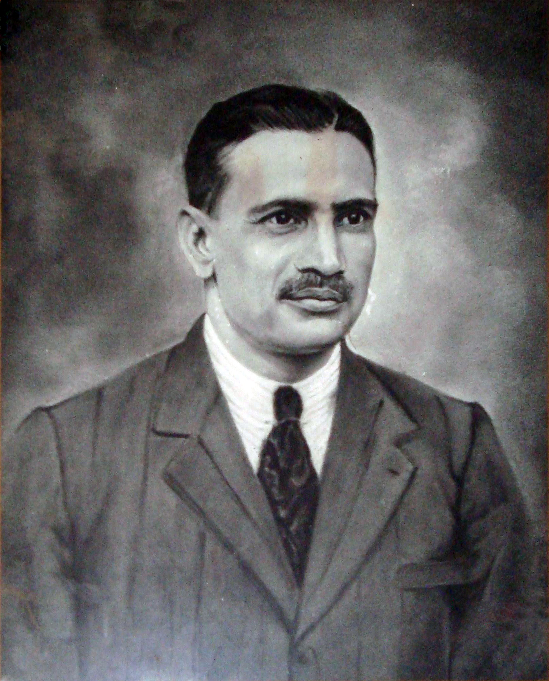 Mir Alam Ali Khan ;Nawab Alam Yar Jung .Former Chief justice and Law Minister of Hyderabad State